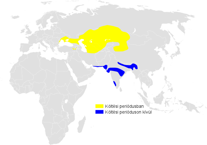 Acrocephalus agricola distribution map, based on